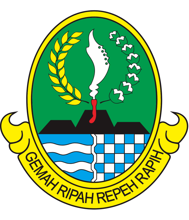 Coat of Arms of Indonesian province of West Java.